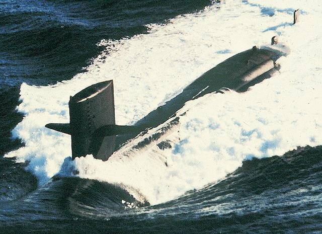 United States Navy attack submarine USS Archerfish (SSN-678)